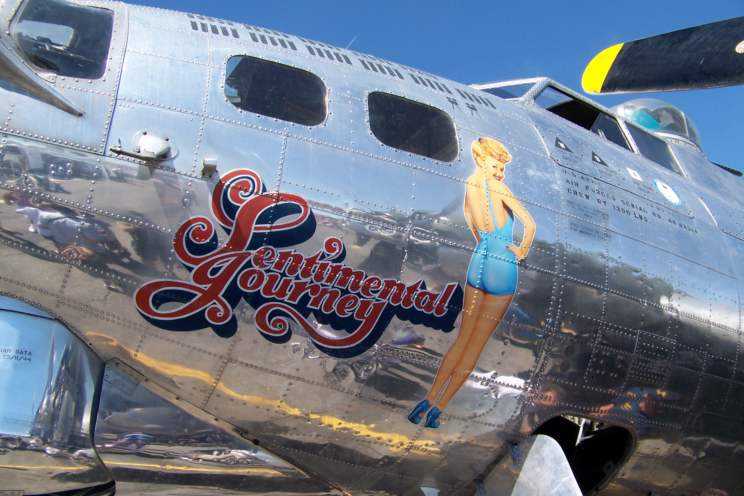 Amigo Airsho 2007, El Paso (Fort Bliss), Texas